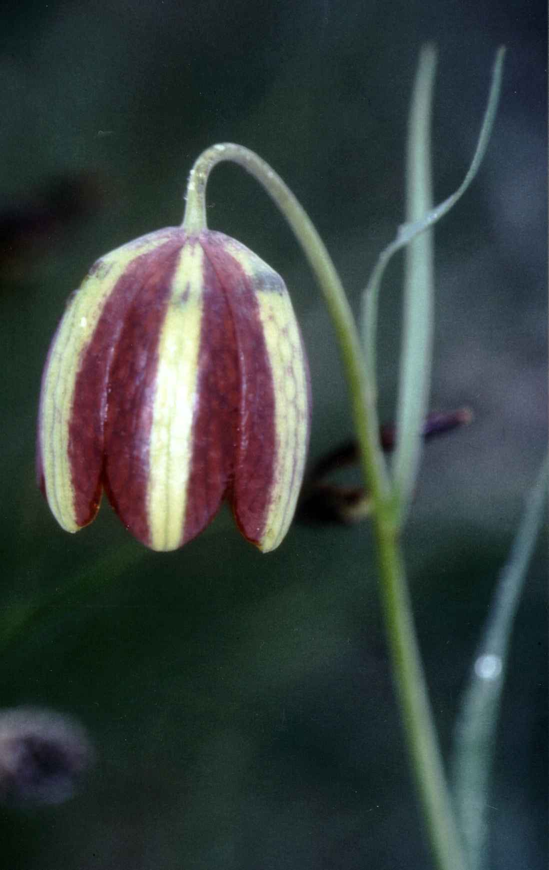 Fritilary common on pastures